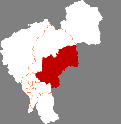 Location of Jiutai county-level city in Changchun City, China